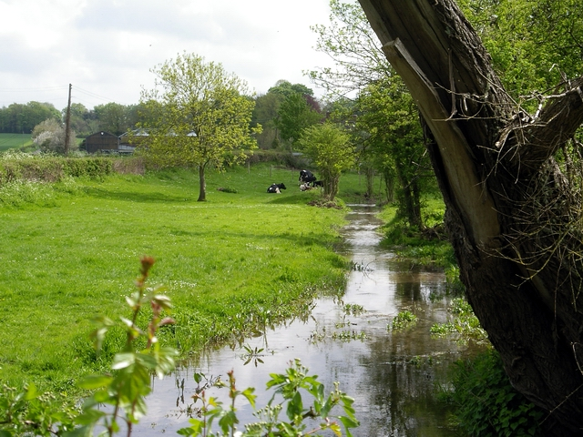 River Dever near Weston Colley. Cows enjoying the pasture on the young River Dever's bank.